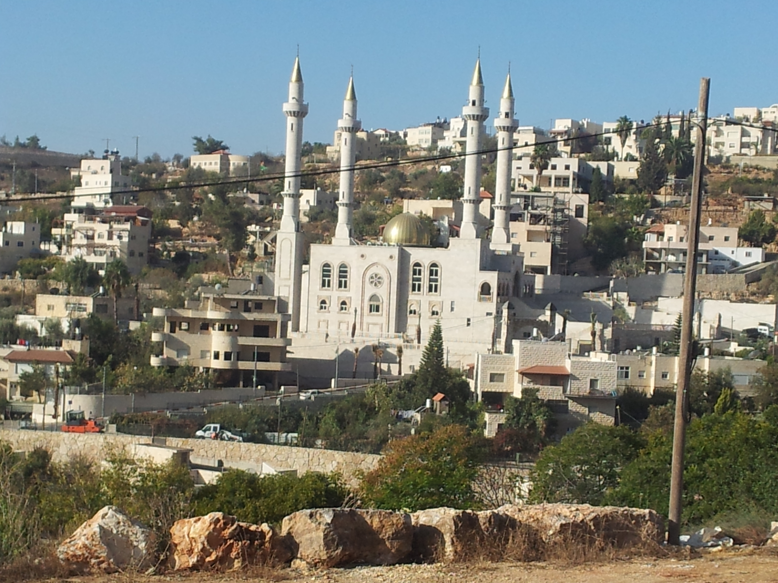 Abu Gosh new Mosque